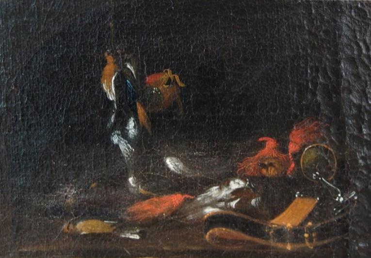 Johann Michael Bretschneider, 16,6 x 11,5 cm, 1715, "B99", oil paint on canvas, Private Collection